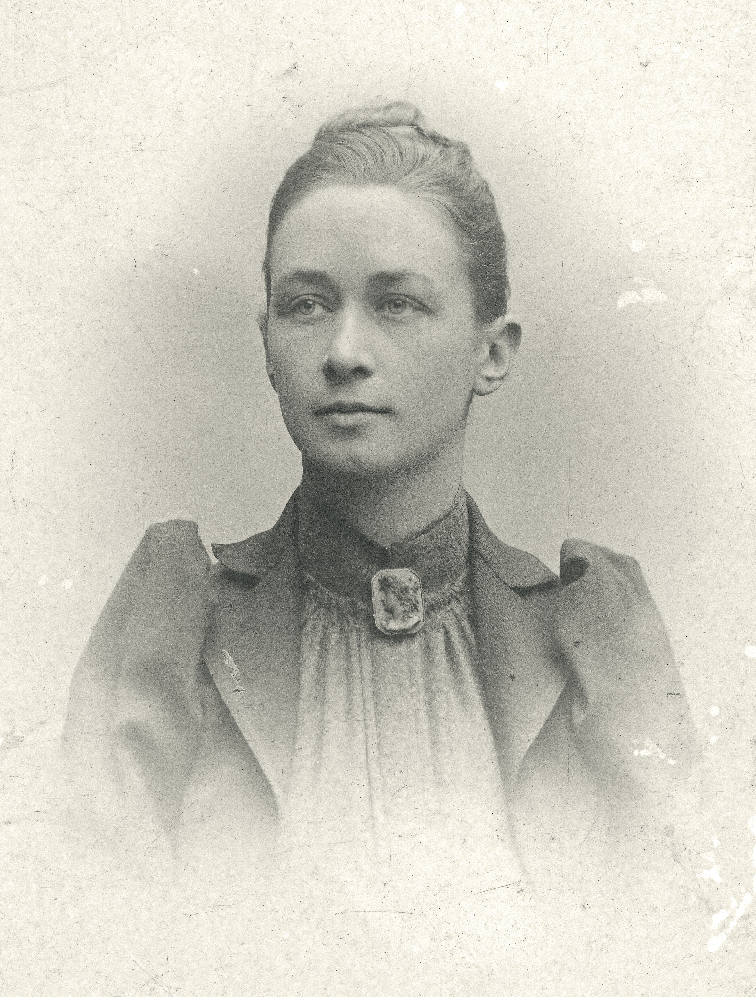 Portrait photo of Hilma af Klint by an unknown photographer